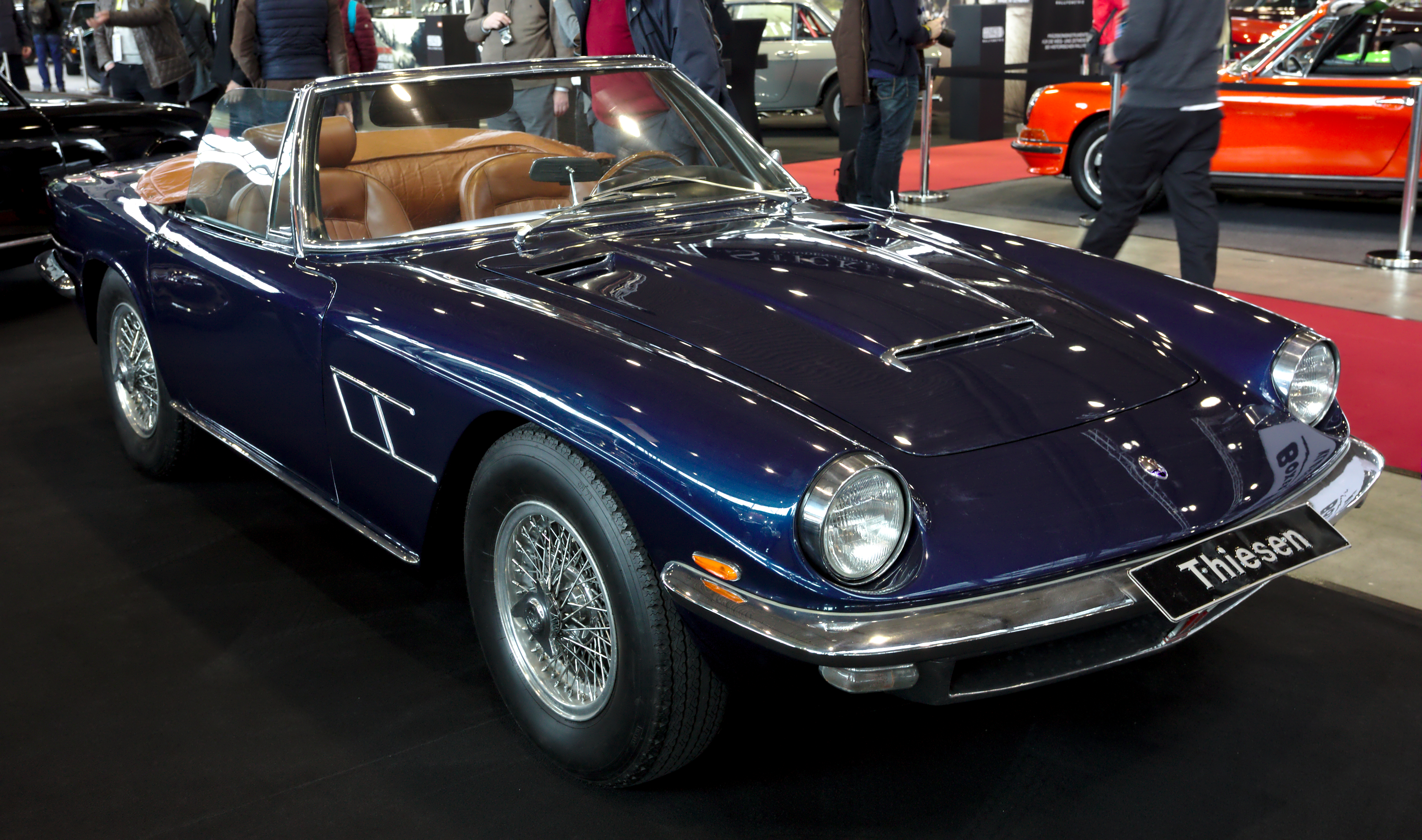 Maserati Mistral 4000 Spider at Retro Classics 2018